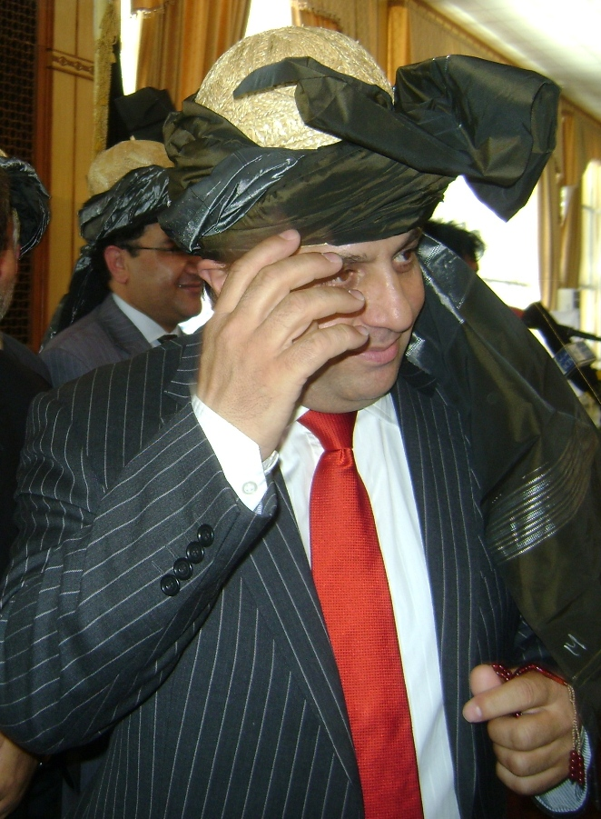 Dawood Jabarkhyl